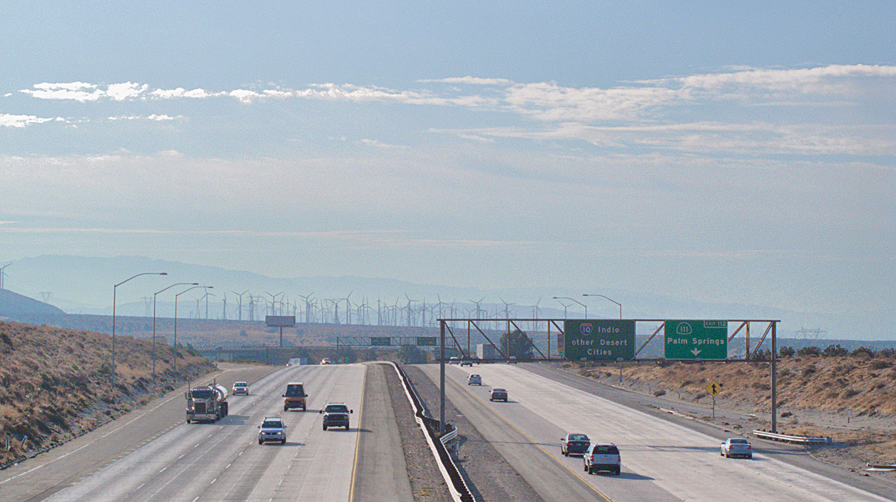 Interstate 10 in California with the San Gorgonio Pass wind farm in the background. Photo taken June 16, 2009.